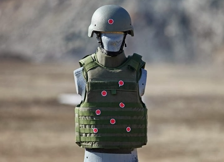 georgian made tactical vest